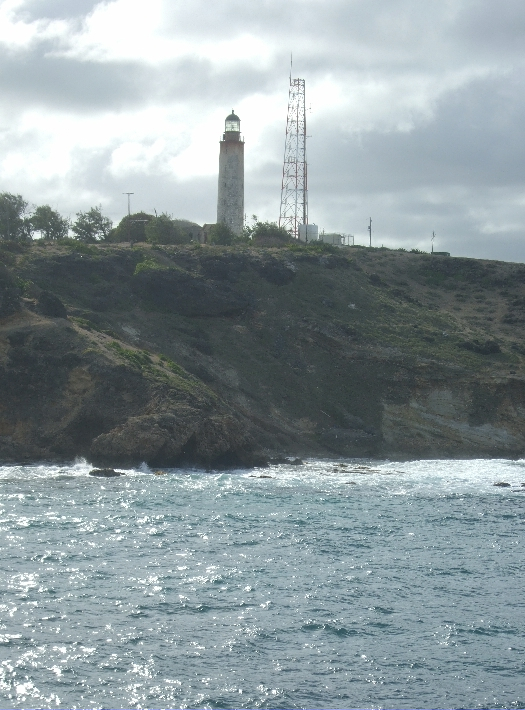 Eastpoint Lighthouse from the northern end of Cobblers Reef